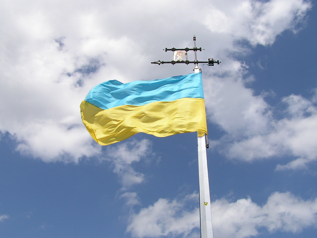 L'viv High Castle Ukrainian Flag and City Emblem